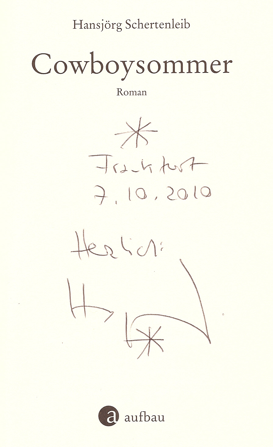 Autograph fram Hansjoerg Schertenleib, writer from switzerland, 2010 in Frankfurt am Main, Germany.